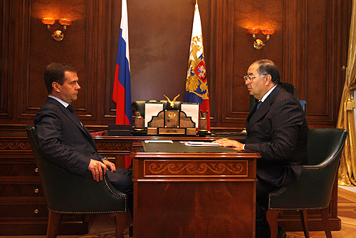 GORKI, MOSCOW REGION. With general director of Gazprominvestholding and co-owner of Metalloinvest Alisher Usmanov.